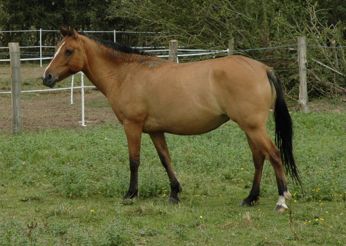 a Horse